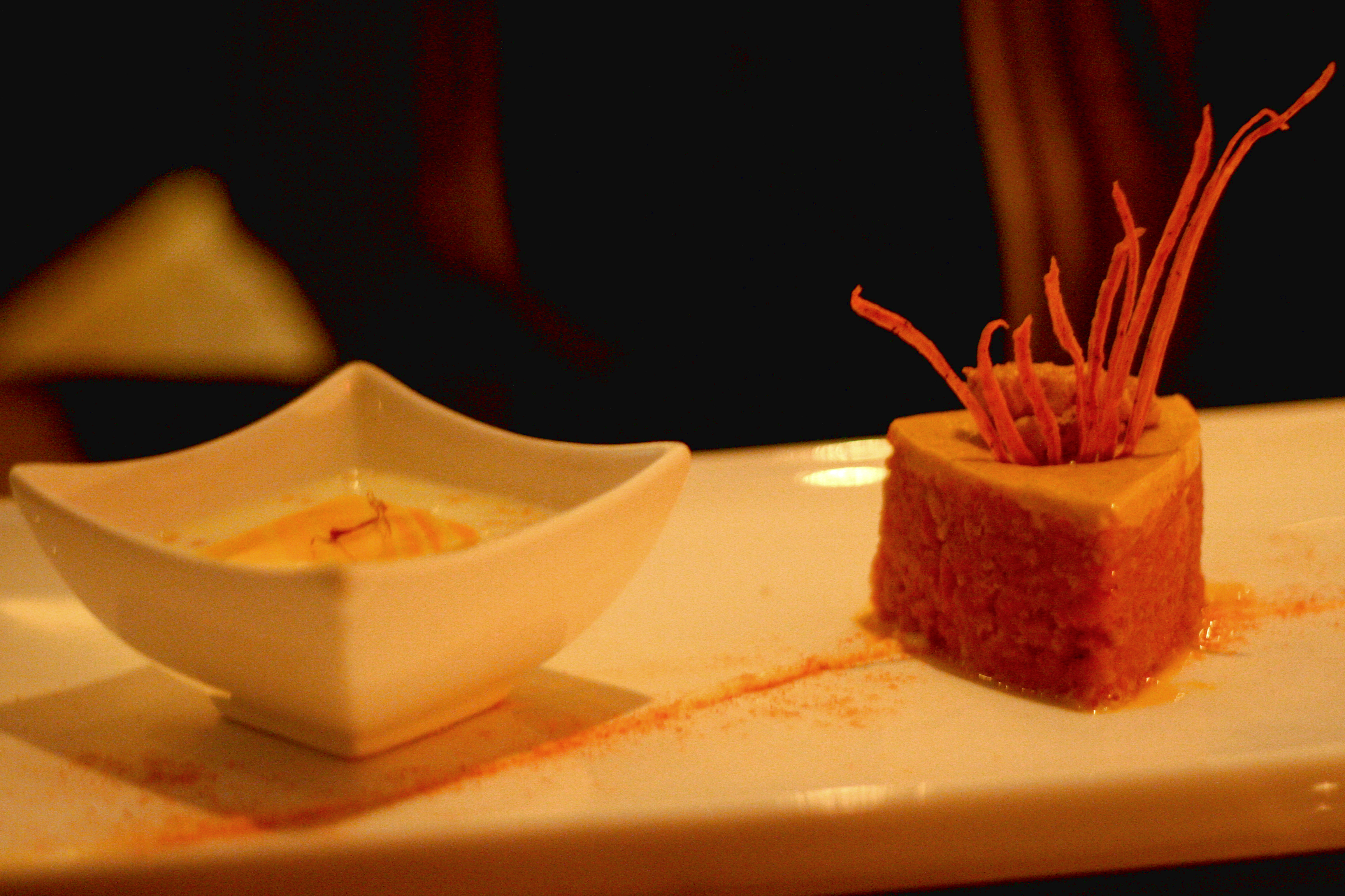 Two traditional sweets: kheer and carrot halwa